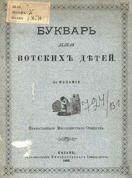 Udmurt language textbook Букварь для вотскихъ дѣтей